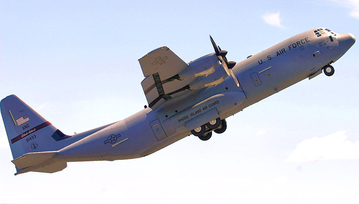 143d Airlift Squadron C-130J 99-1433 Rhode Island ANG